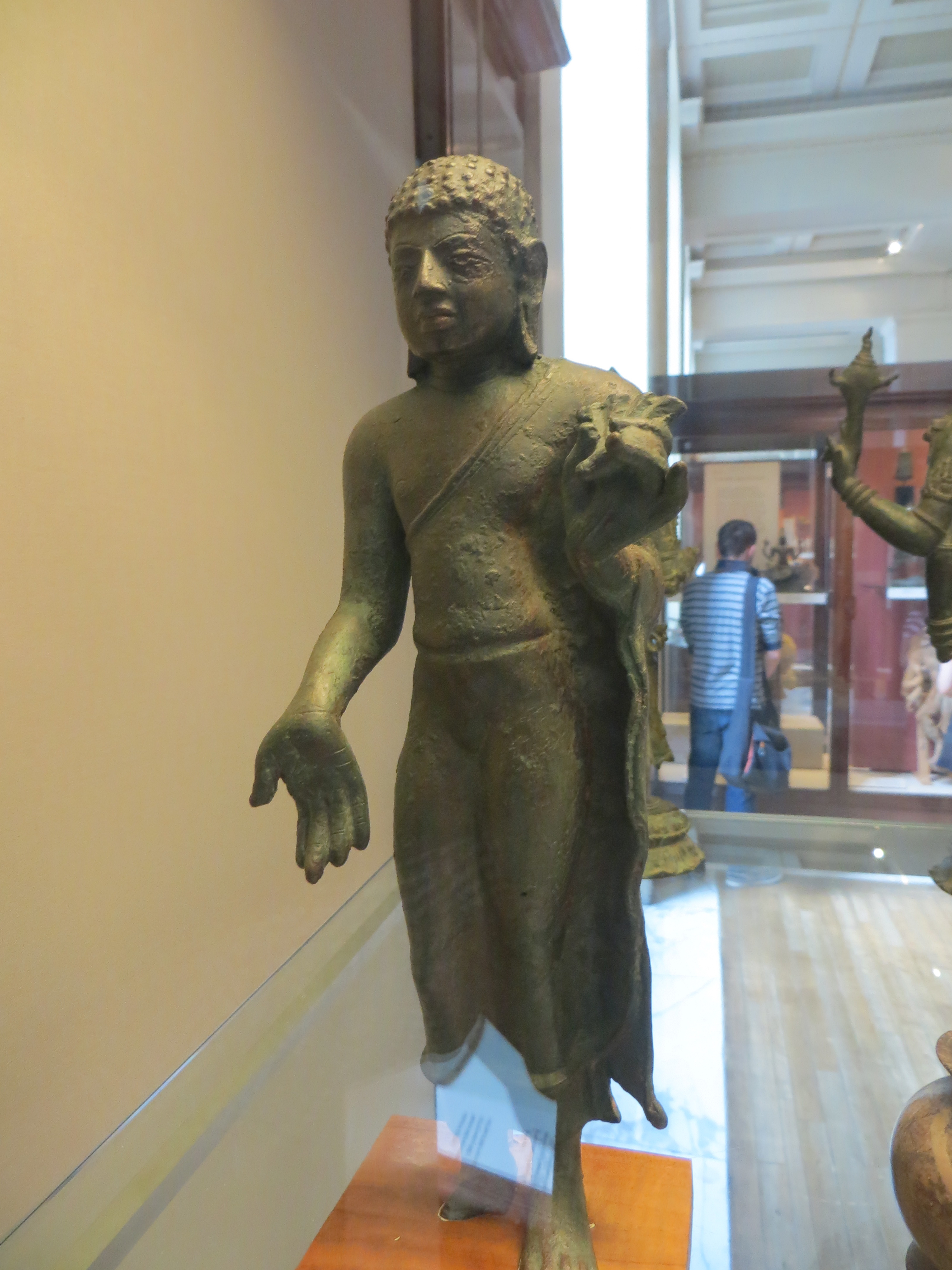 Part of the Buddhapad Hoard in the British Museum